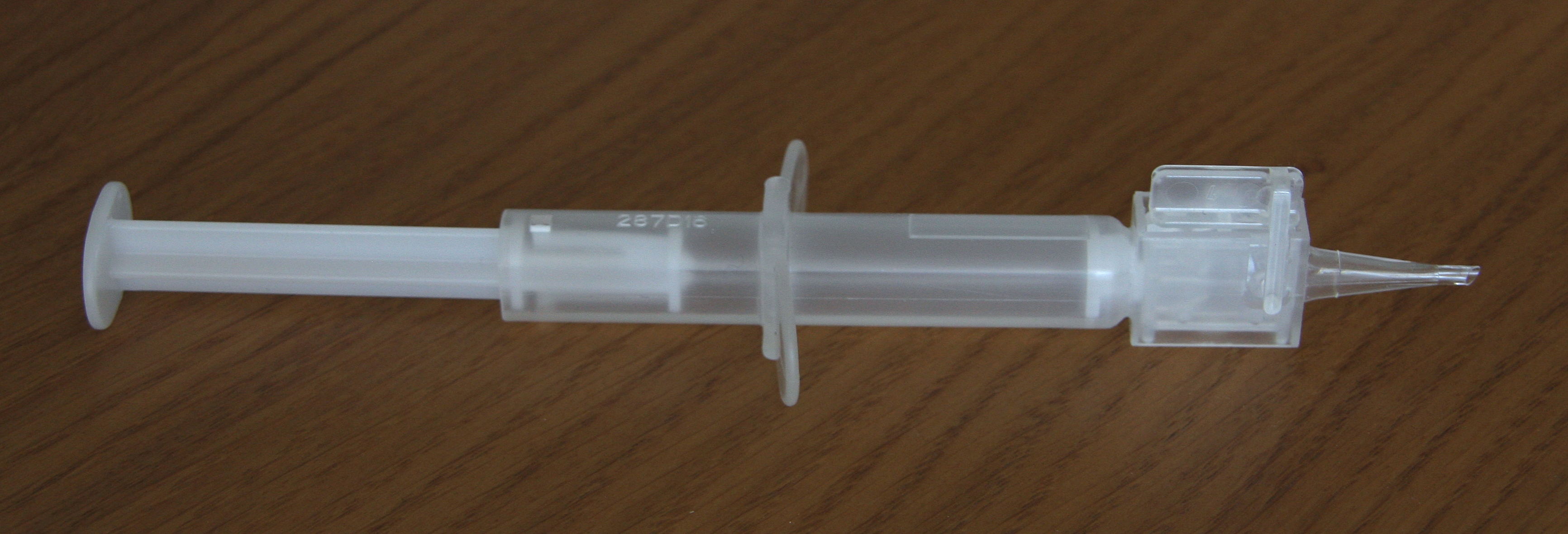 Injector for foldable Intraocular lenses used in cataract surgery. The incision size for this type is 2.8mm.